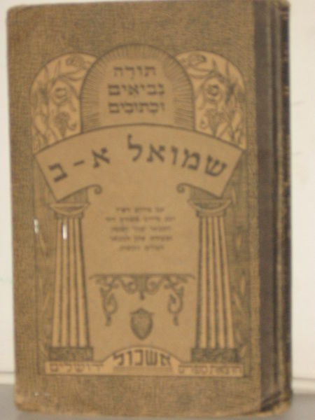 pic of Shmuel book, published by Eshcol